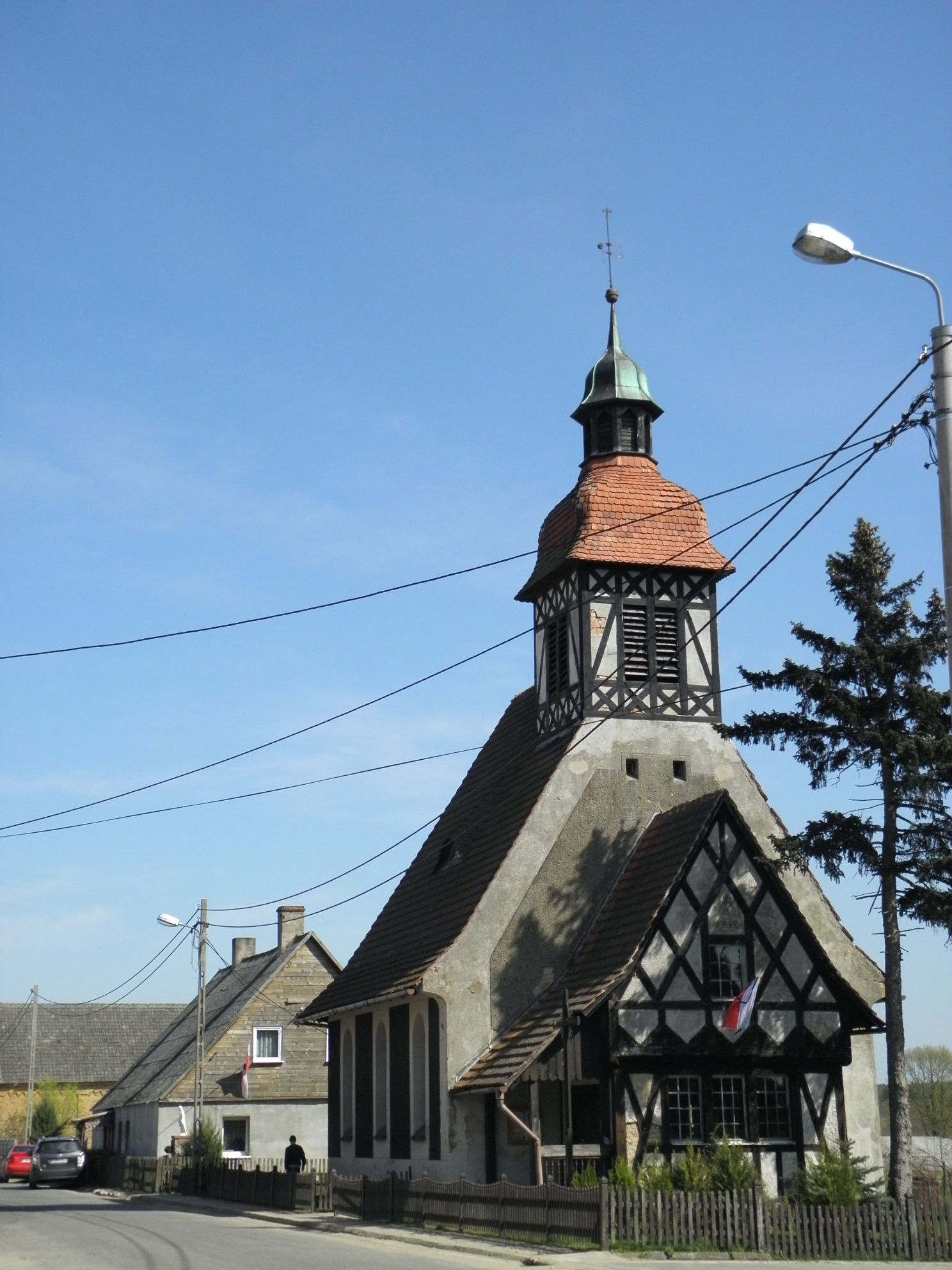 Church in Rudgerzowice (Architect: Georg Büttner)